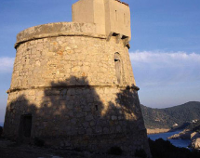 Defense Tower of Es Molar, Eivissa island, Spain